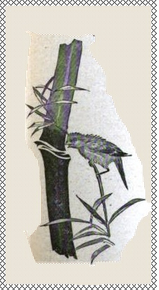 Chroniclerk (talk) 15:18, 22 July 2009 (UTC)